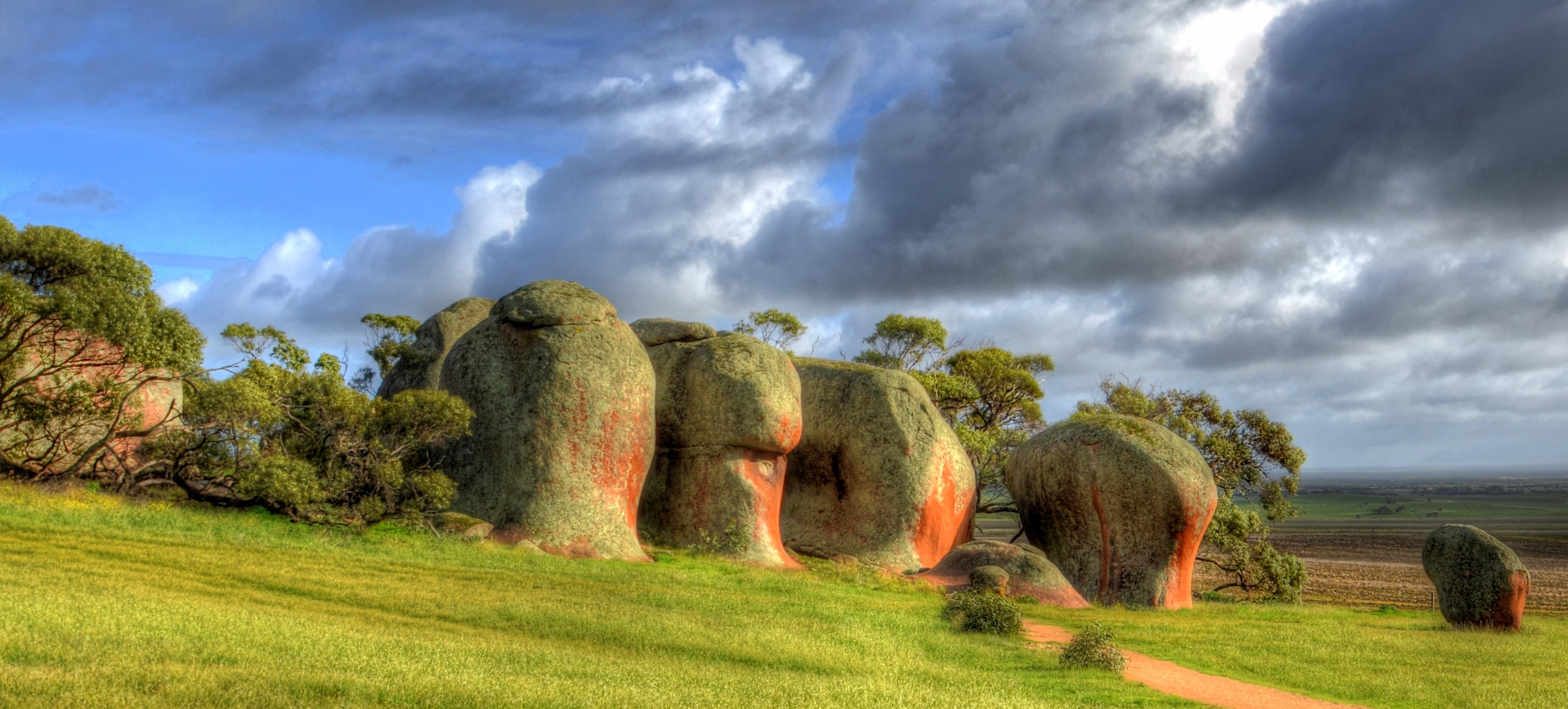 Photo of Murphy's Haystacks at Mortana, South Australia.